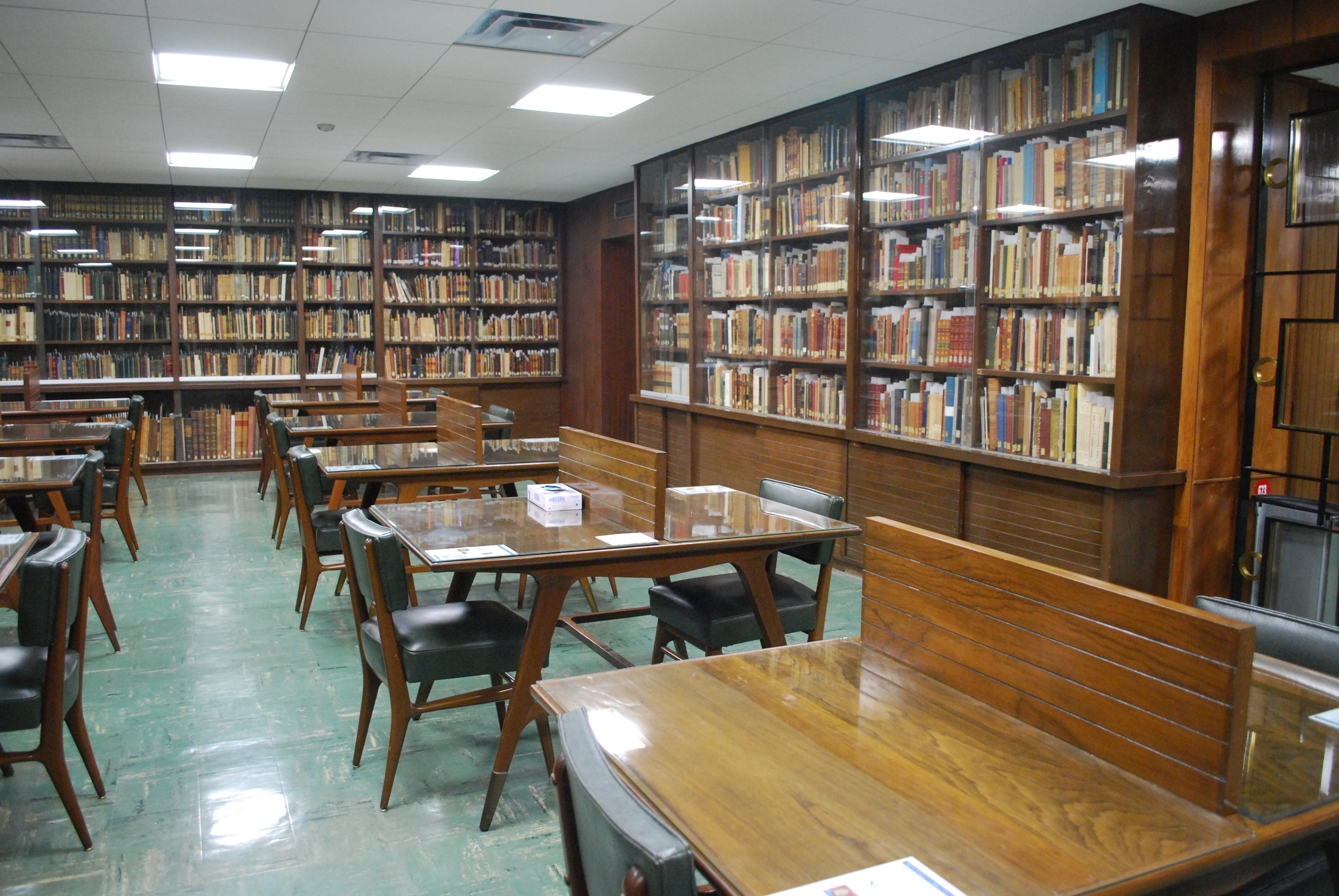 Part of the interior of the Cervantine Library inside the main administration building of ITESM, Campus Monterrey